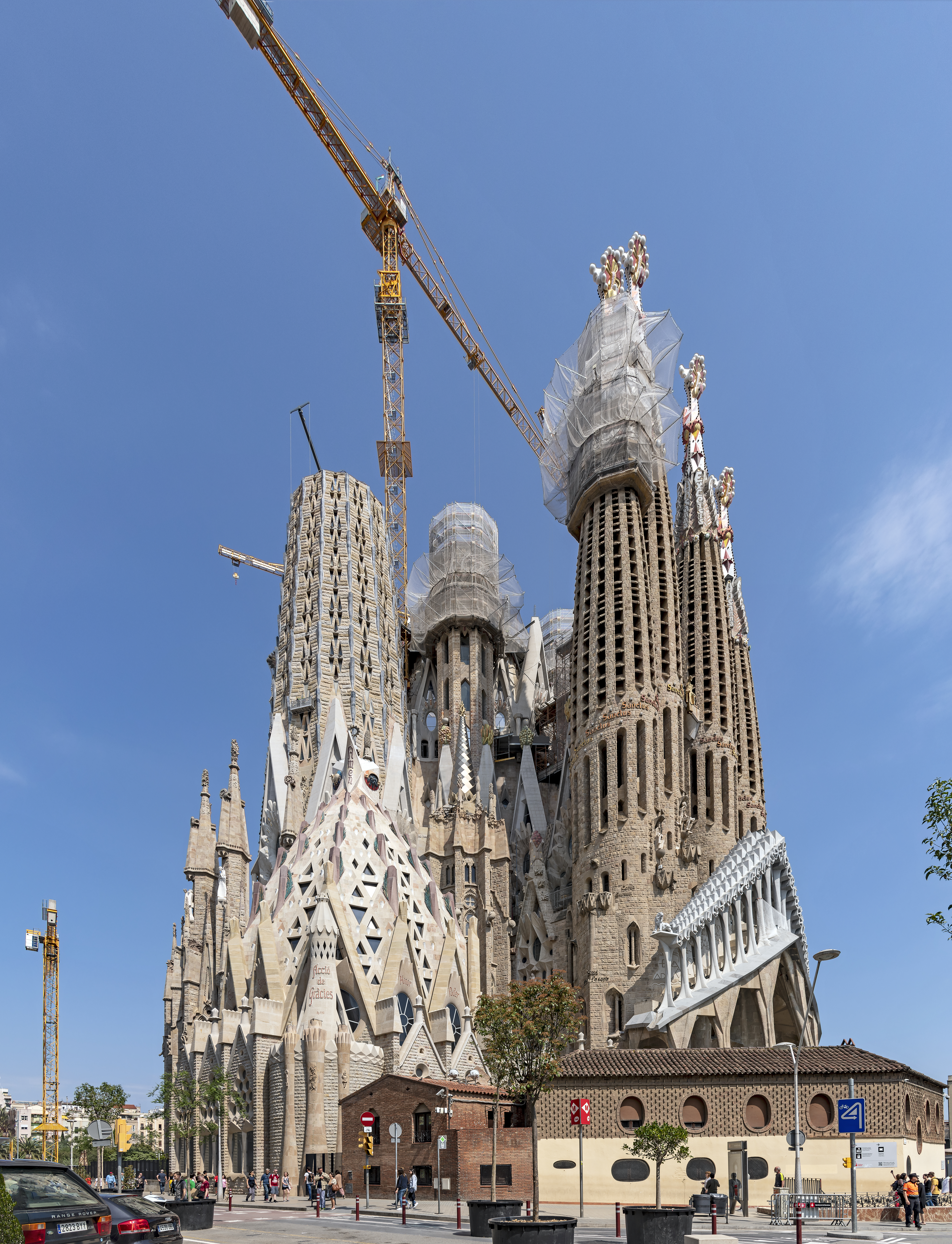 Exterior of the Apse of the Sagrada Família - Western exposure Sagrada Família Native nameLa Sagrada Família Parent institutionlist of Modernista buildings in Barcelona LocationEixample , SpainCoordinates41° 24′ 13″ N, 2° 10′ 27.05″ E Established1882 Web page Authority control : Q48435 VIAF: 142792618 LCCN: n79129598 OSM: 9194723 BIC: RI-51-0003813 GND: 4086371-2 WorldCat institution QS:P195,Q48435